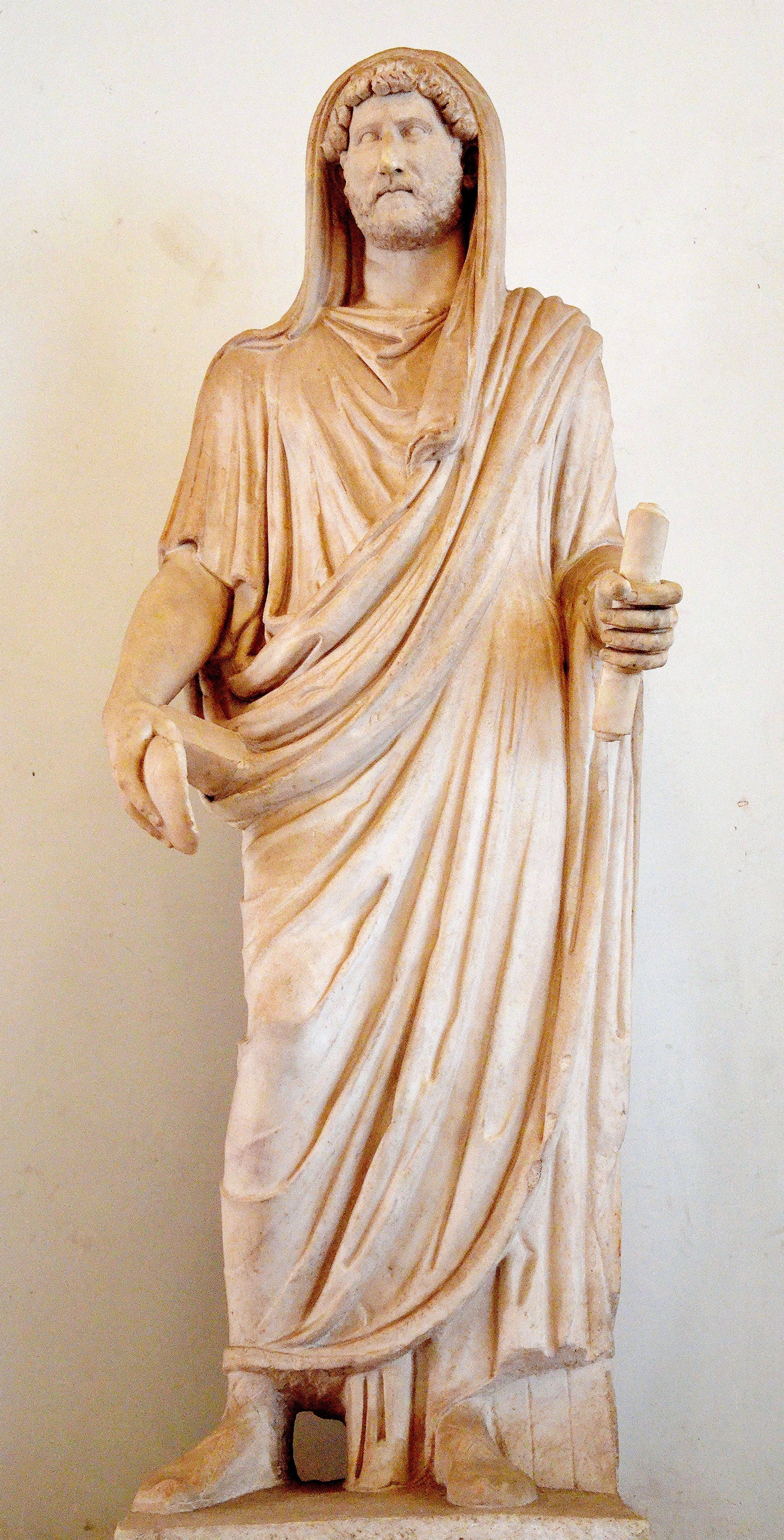 Provenance: From Rome, near the church of S. Stefano Rotondo Acquisition data: In the Capitoline since 1671 Inventory: inv. MC0054 This is the only statue that shows the emperor Hadrianus as offeror; his depiction with his head covered refers to his specific public religious function of Pontifex maximus. The larger-than-life statue shows the emperor Hadrian standing, resting on his left leg, his right leg slightly behind and moved to the side; his arms have been partly restored, his left bent at the elbow is extended forward presently holding a scroll, his right probably extended downwards, alongside his body: now his hand holds a patera. The emperor wears a long tunic with sleeves down to his elbows. His feet are uncovered and he is wearing calcei patricii ; he is wearing a toga on top of the tunic, characterized by the wide balteus animated by full folds, falling from his left shoulder and wrapping around his right side, while on his back a wide raised border veils his head. The sculpture falls into the category of portrait-like models, said model having been defined as “Typus Baiae”, known by approximately twenty copies, characterized by the close-cropped beard and the full locks of hair on the forehead, by the eyes with carved irises and the pupil indicated by a semicircular indentation and dated between AD 130-140, as is the statue. From Santo Stefano Rotondo .